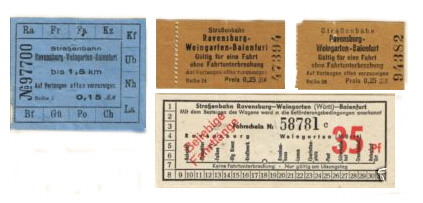 Tickets for the tram between Ravensburg, Weingarten, and Baienfurt (Germany)